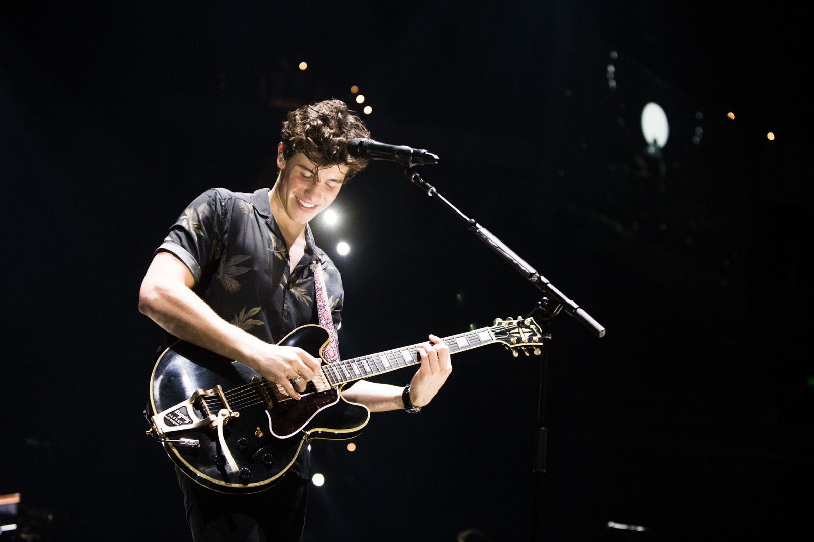 own work photograph of Shawn Mendes in 2017